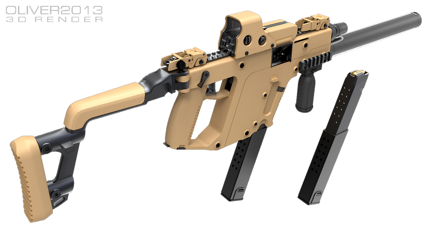 ZOMBIE_KRISS_VECTOR_LINES (pong version without background)